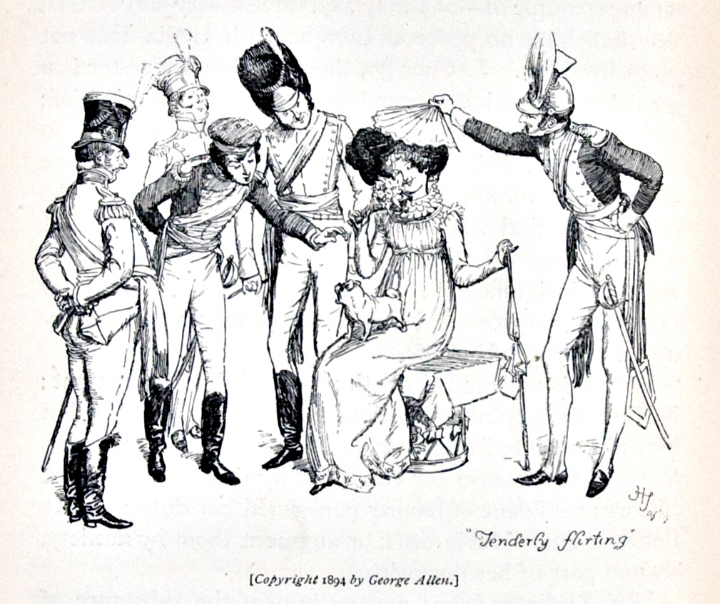 "Tenderly flirting" - Lydia imagining her trip to Brighton. Austen, Jane. Pride and Prejudice. London: George Allen, 1894, page 290.